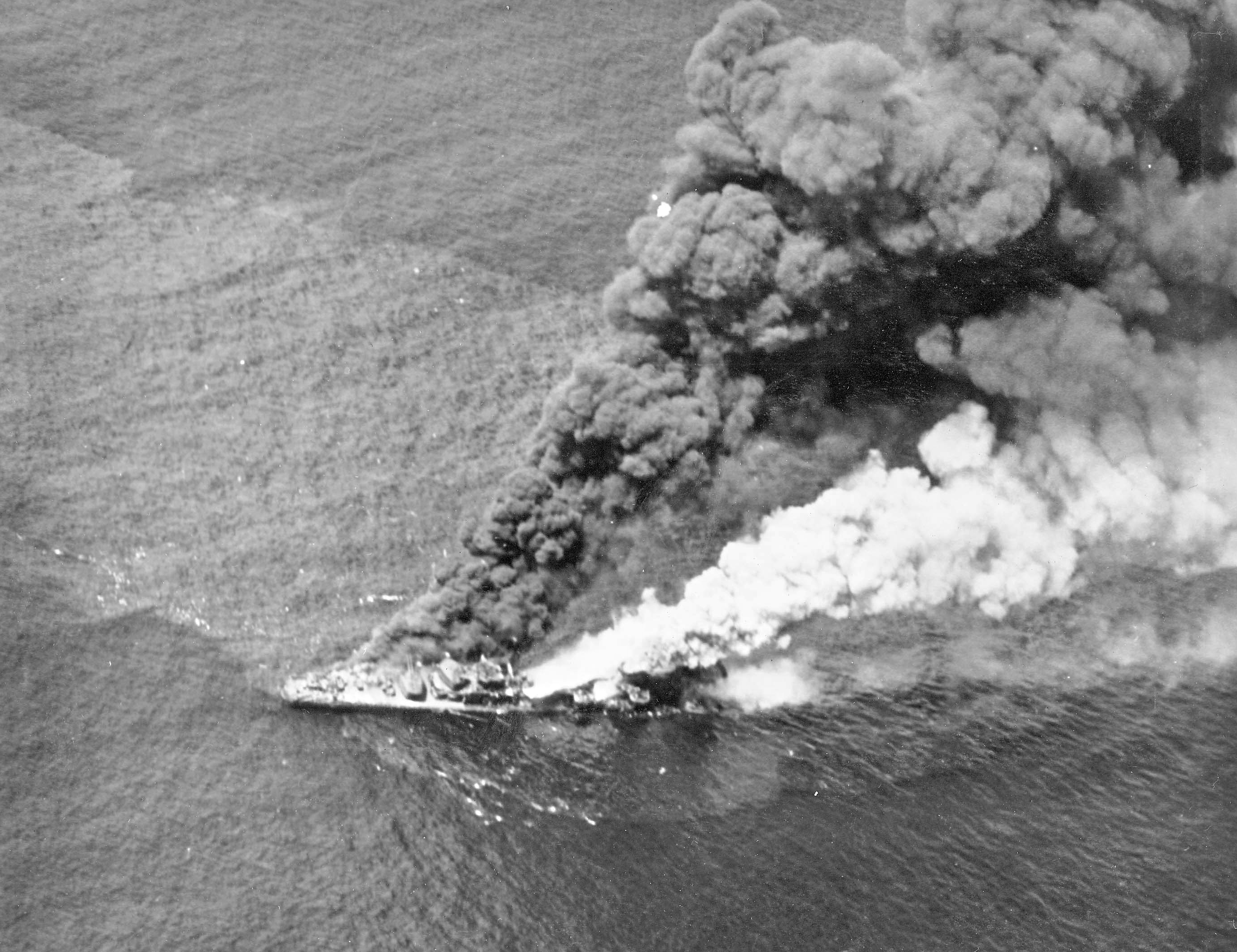 A Japanese destroyer Wakatsuki burns off Leyte, Philippine Islands after being attacked by U.S. carrier planes, 11 November 1944. 350 U.S. Navy aircraft sank the destroyers Hamanami, Naganami, Shimakaze, and Wakatsuki and all the transports of a convoy 80 km north-east of Cebu, Philippines (10.50N 124.35E).